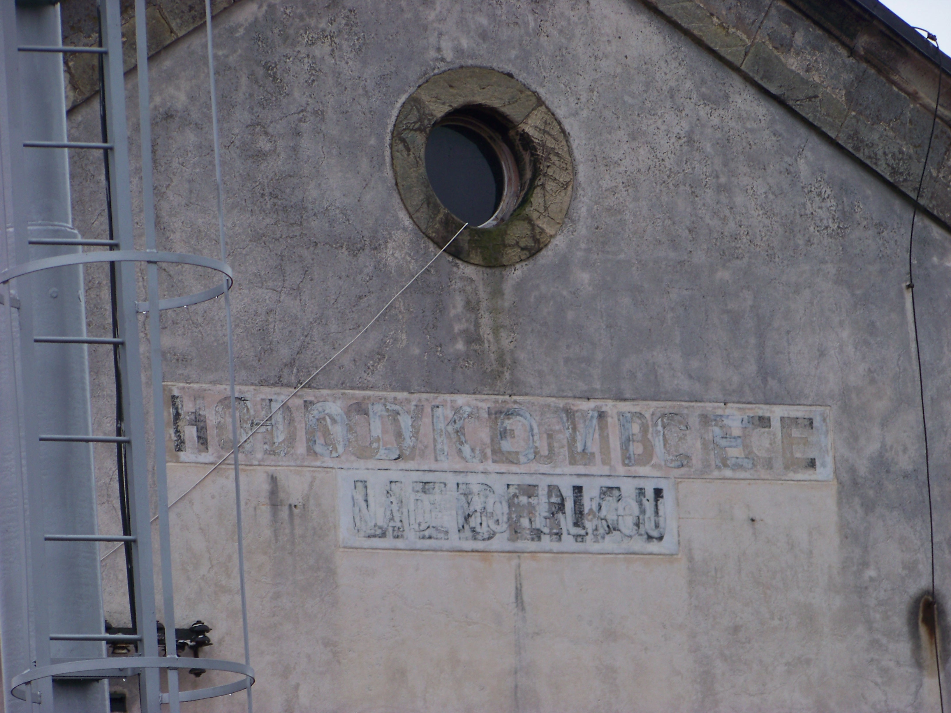 Hodkovice nad Mohelkou, Liberec District, Liberec Region, Czech Republic. Train station Hodkovice nad Mohelkou.